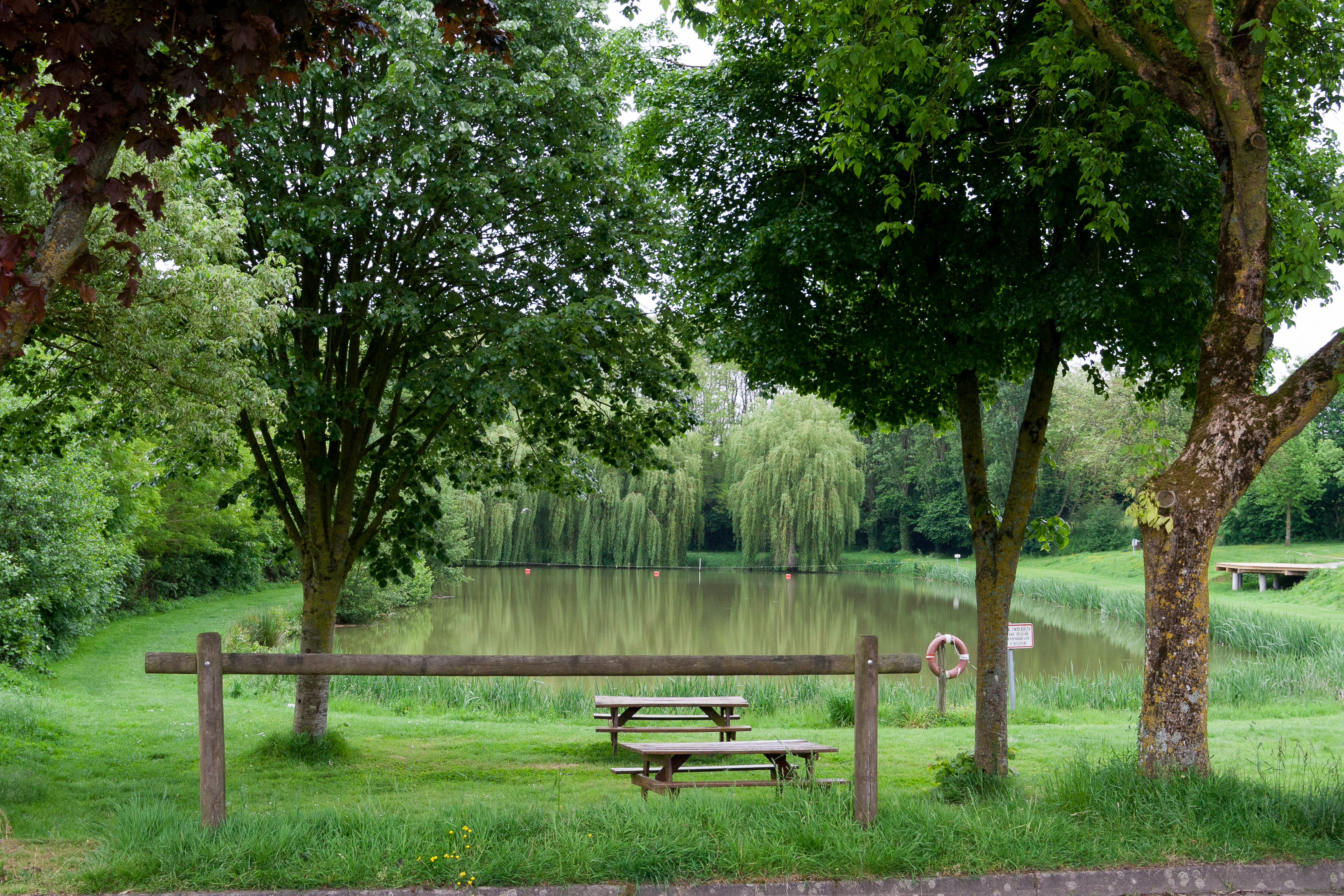 Pond of La Chapelle-Craonnaise.